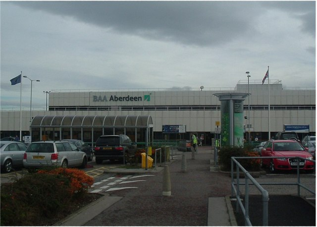 Entrance to Aberdeen Airport, Scotland.